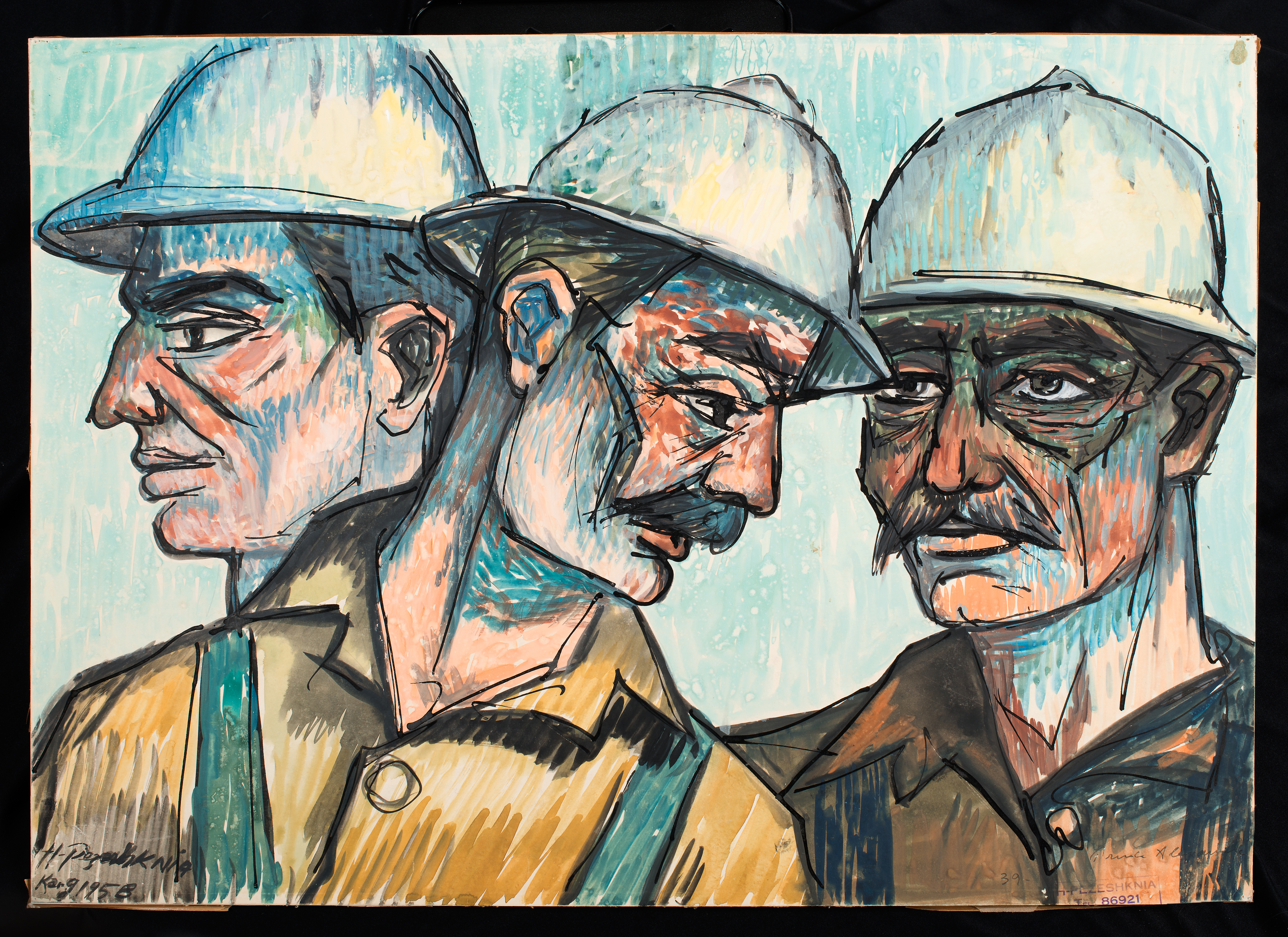 Khark, 1958. Watercolor on cardboard H. 20 1/6 x W. 27 9/16 in.. Babak Pezeshknia Collection. Image courtesy of Asian Society, New York